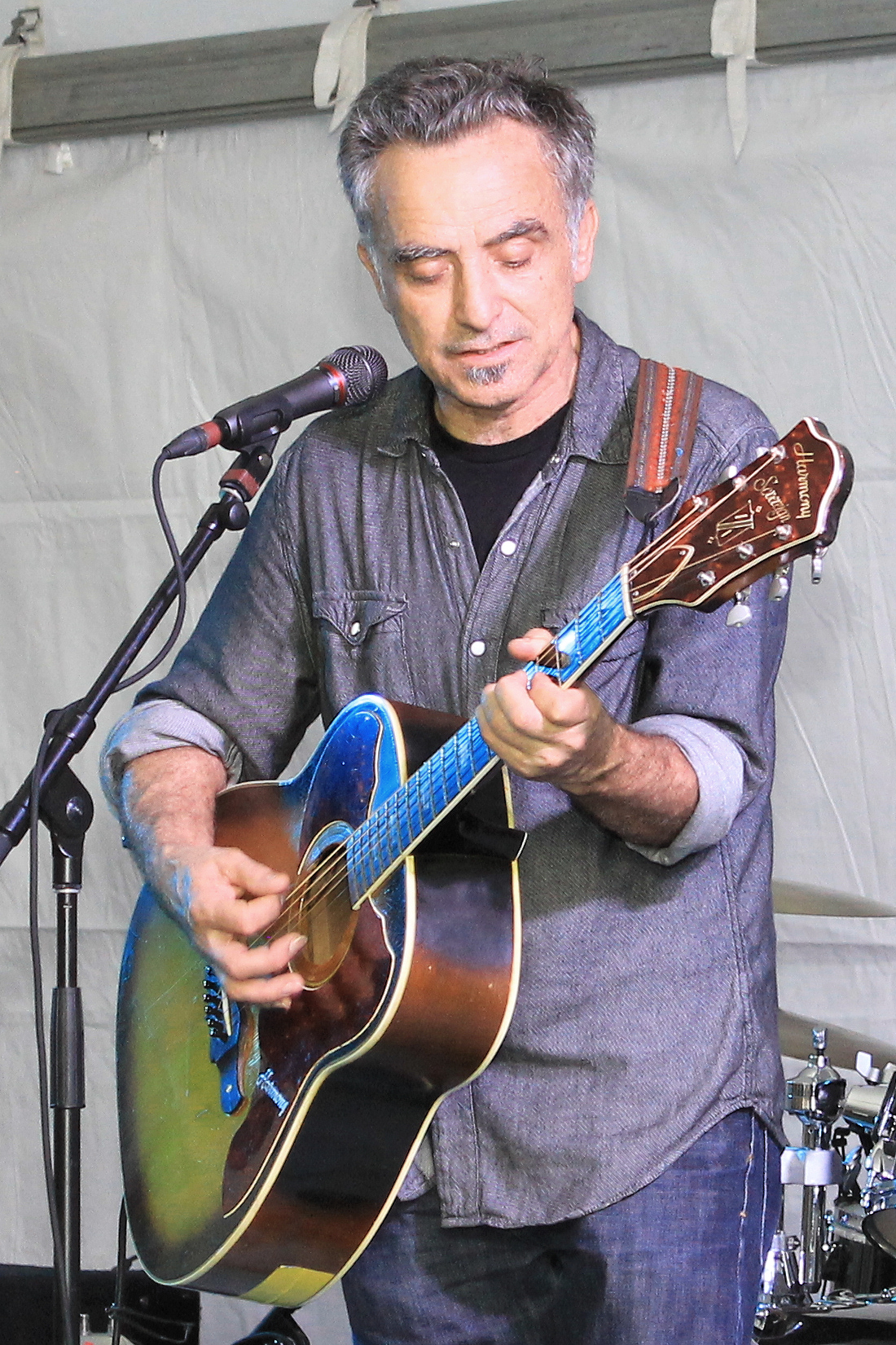 Musician Michael Fracasso at the 2016 Texas Book Festival.